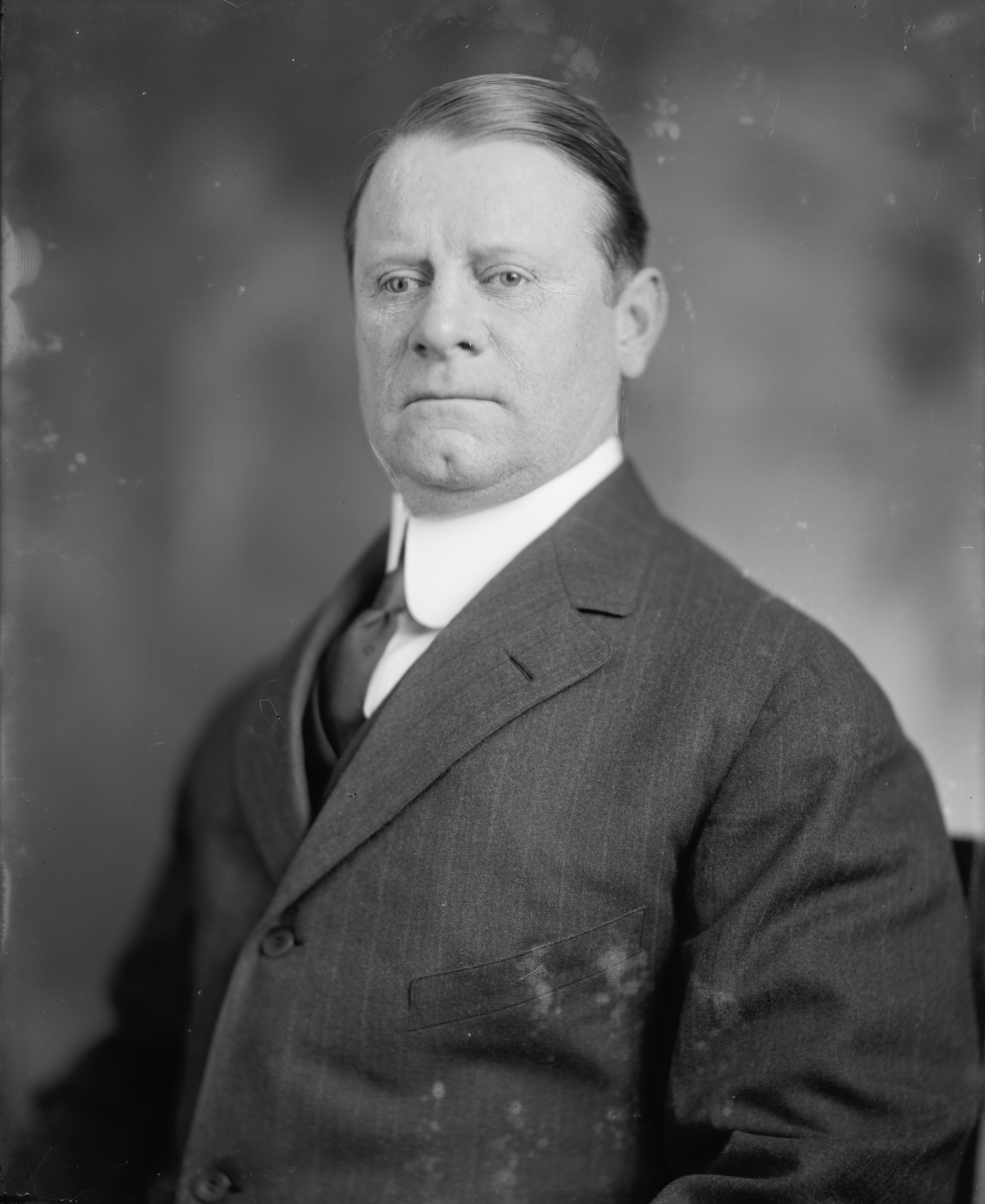 George W. Loft, Congressman and racehorse breeder from New York.